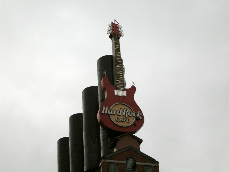 Hard Rock Cafe Baltimore, USA